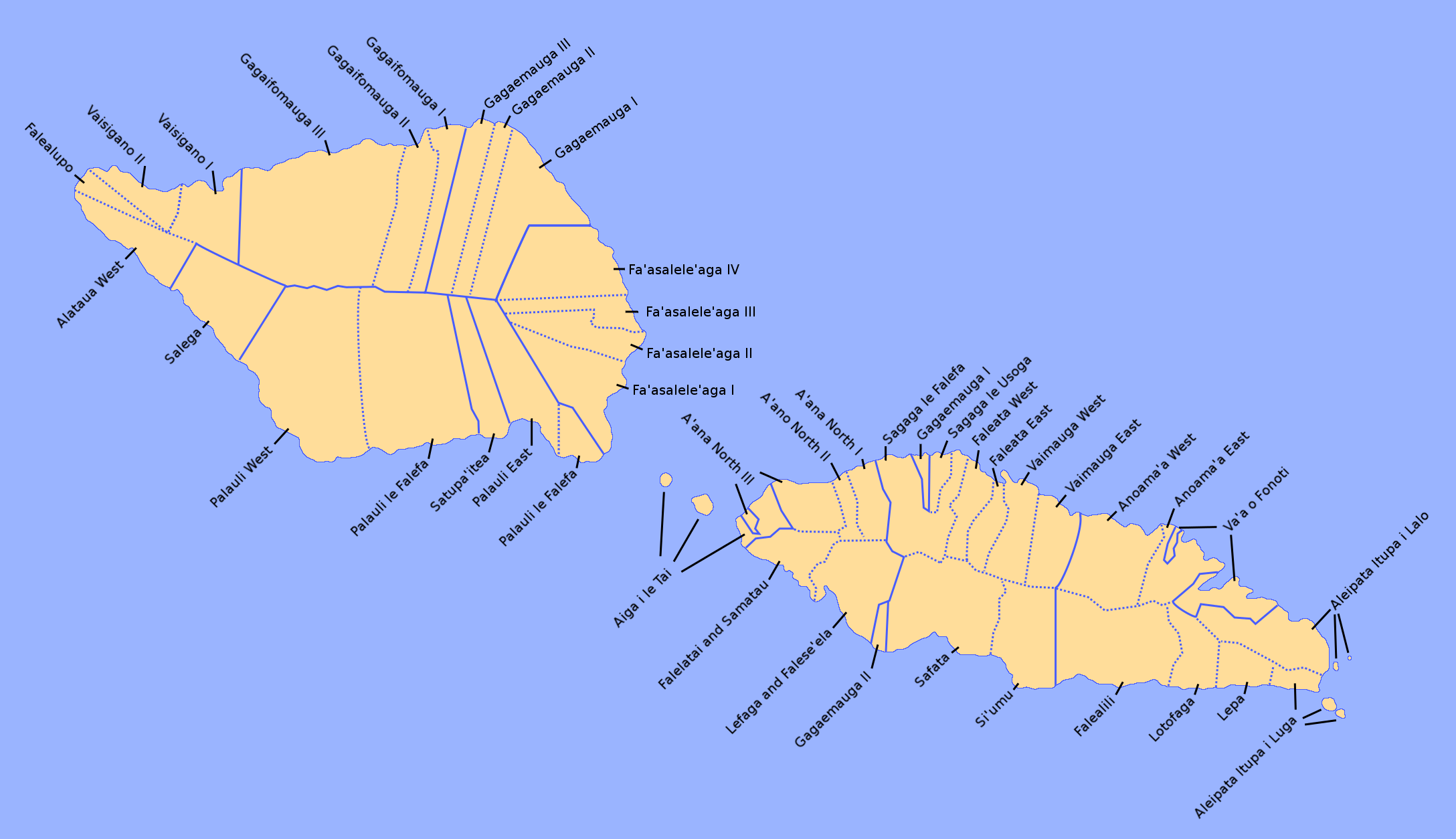 Electoral constituencies of Samoa, labelled using English names of locations. District borders and geography as shown in second image below, constituency borders as described in Territorial Constituencies Act 1963, and roughly as shown in 2006 Census report (Samoan Bureau of Statistics)